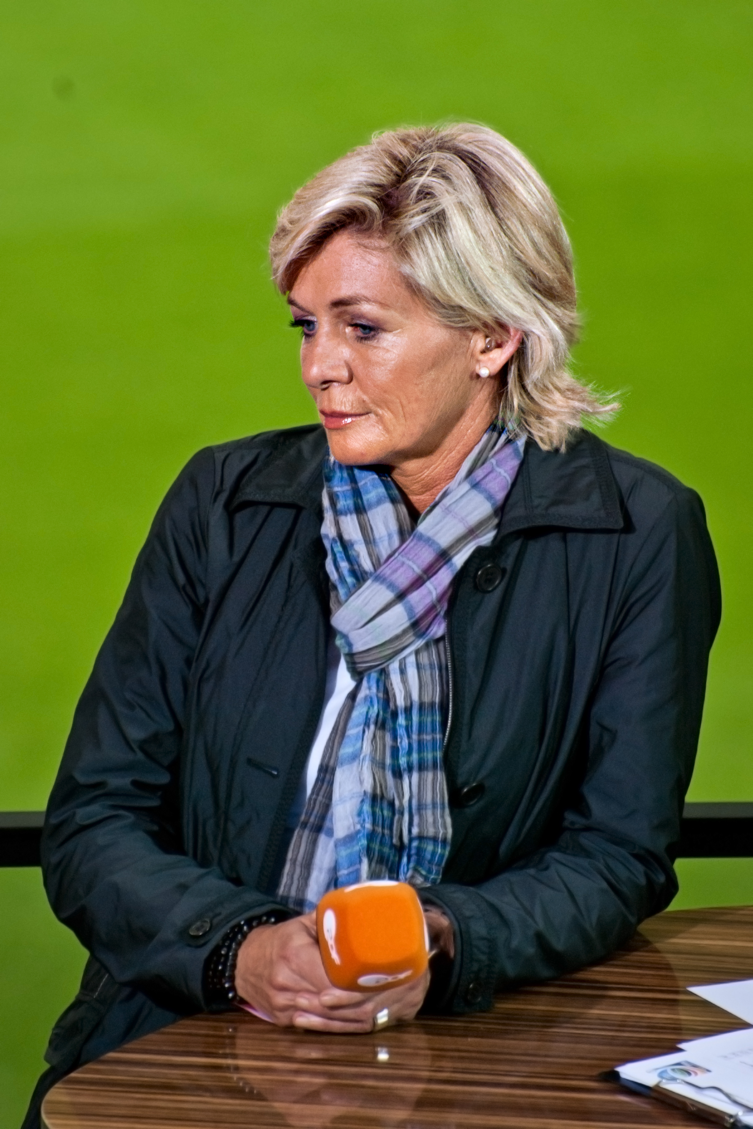 Silvia Neid, head coach of the Germany women's national football team, in a TV-interview before the semi-final of the FIFA Women’s World Cup Germany 2011 between Sweden and Japan at Commerzbank-Arena.